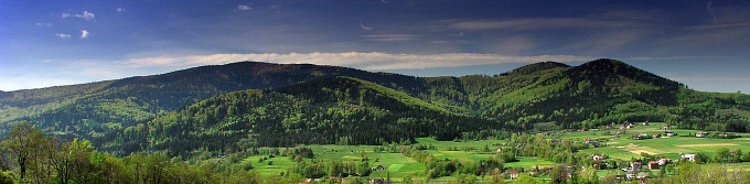 Panorama wsi Brenna w Beskidzie Śląskim 2005